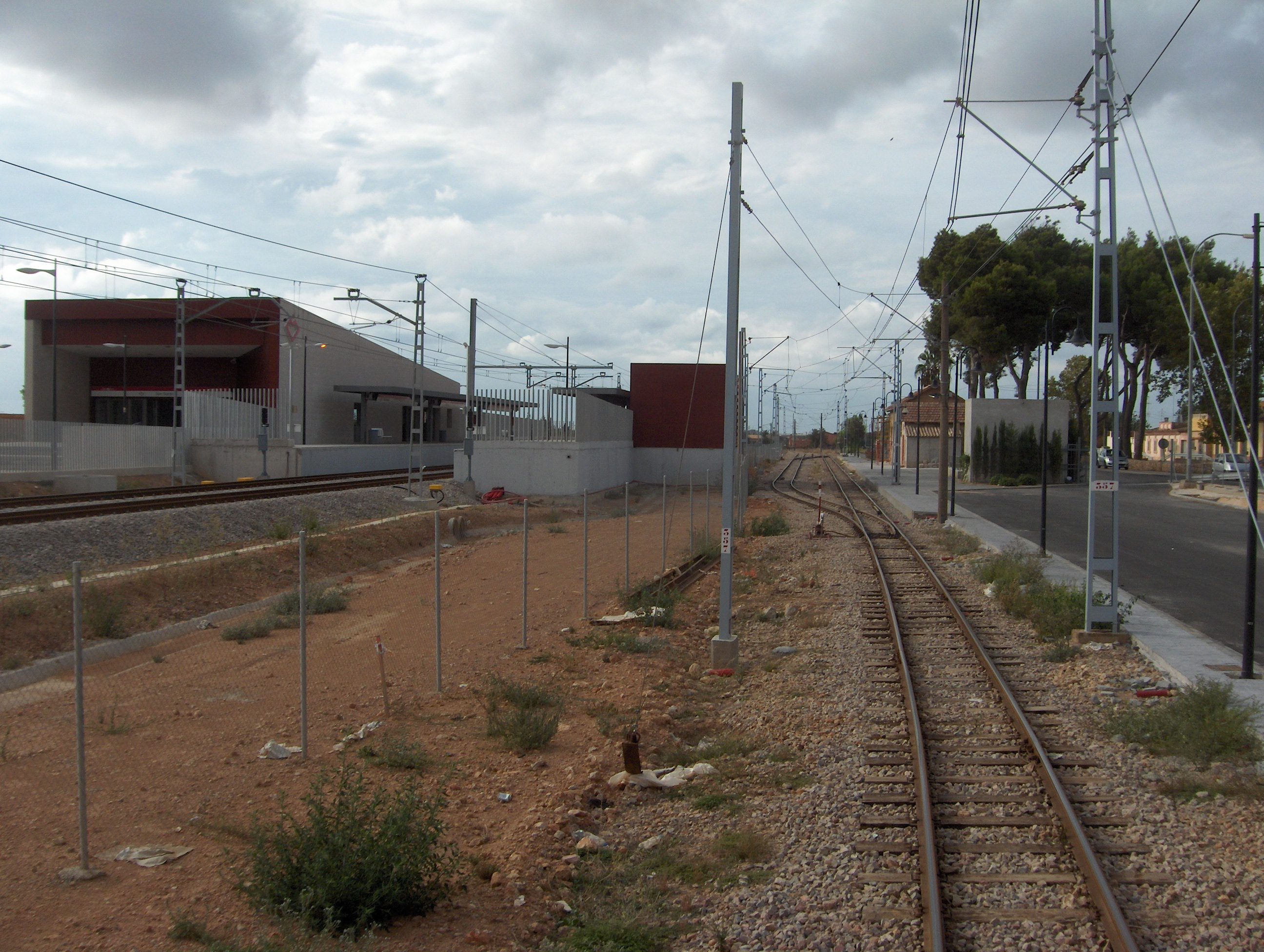 Station of Son Sardina (FS to the right, Metro to the left)